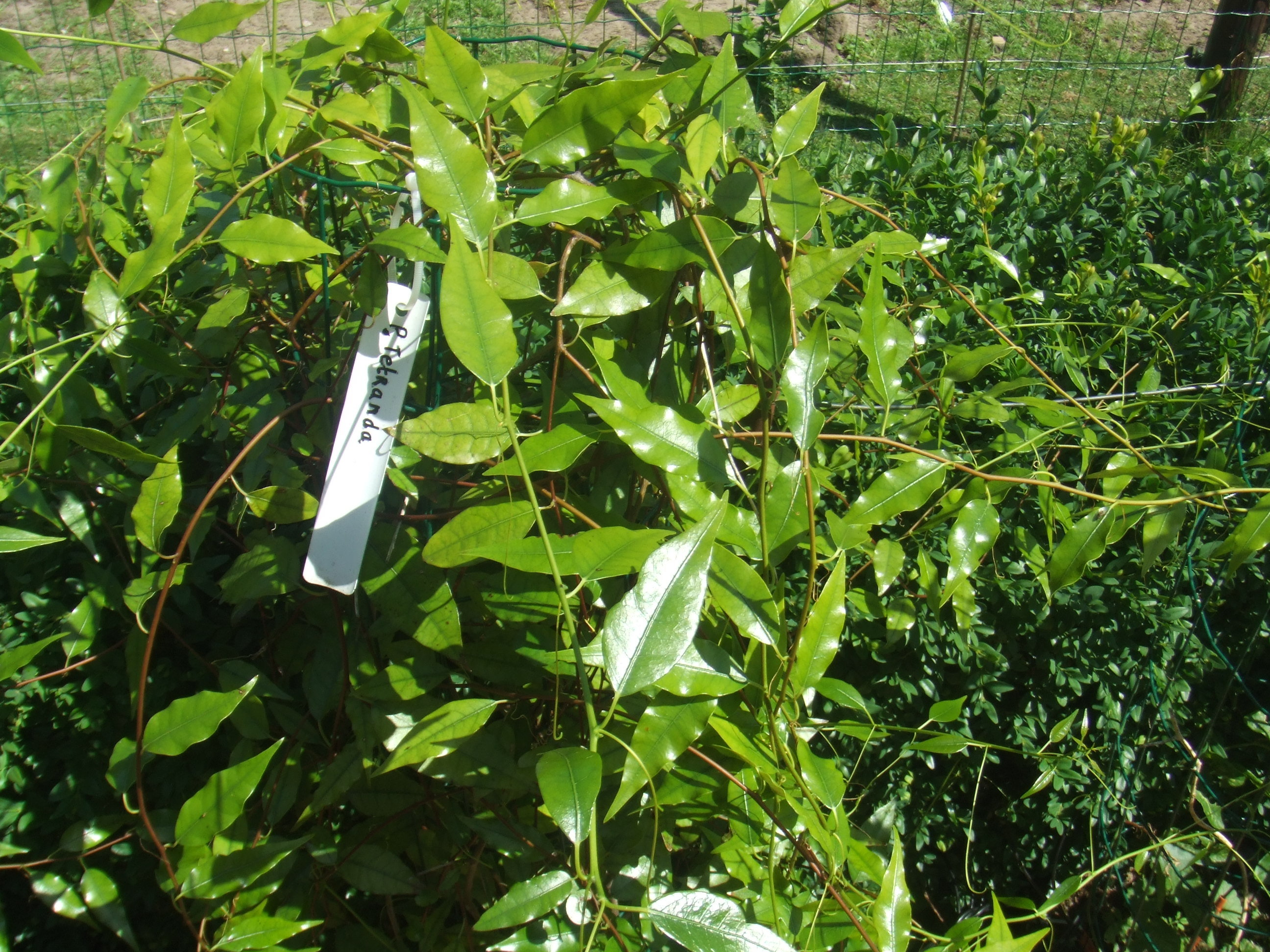 Tetrapathea tetrandra